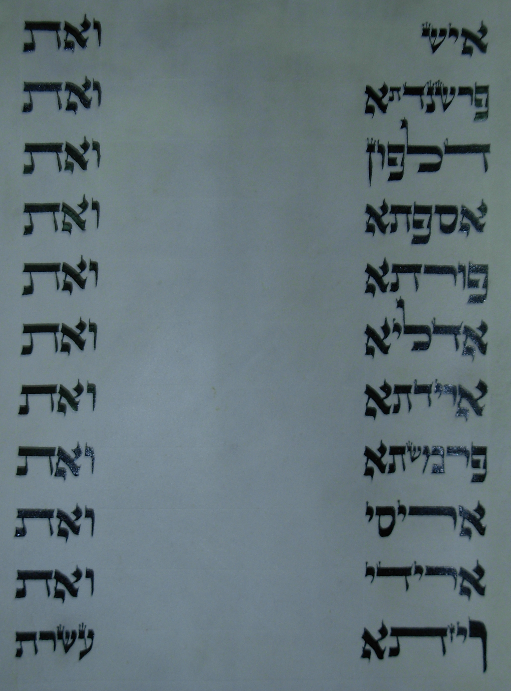 The names of Haman's 10 childen written out in an Ashkenazi megilla